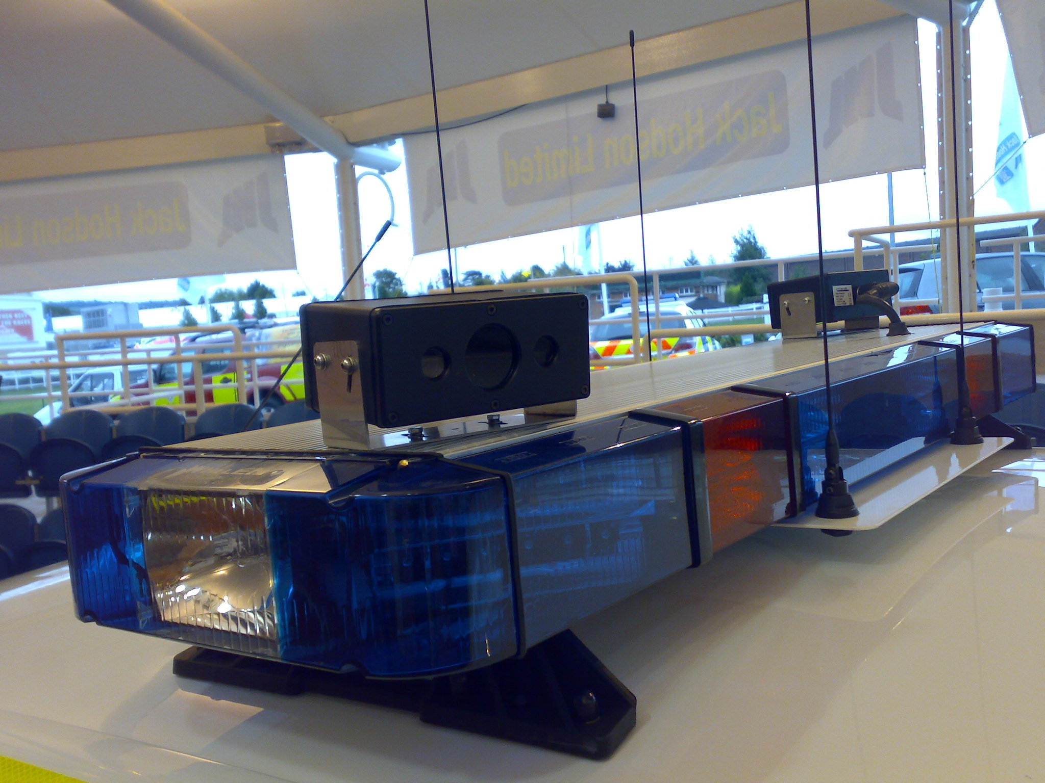 Petards ANPR camera on mobile ANPR use - Police Car